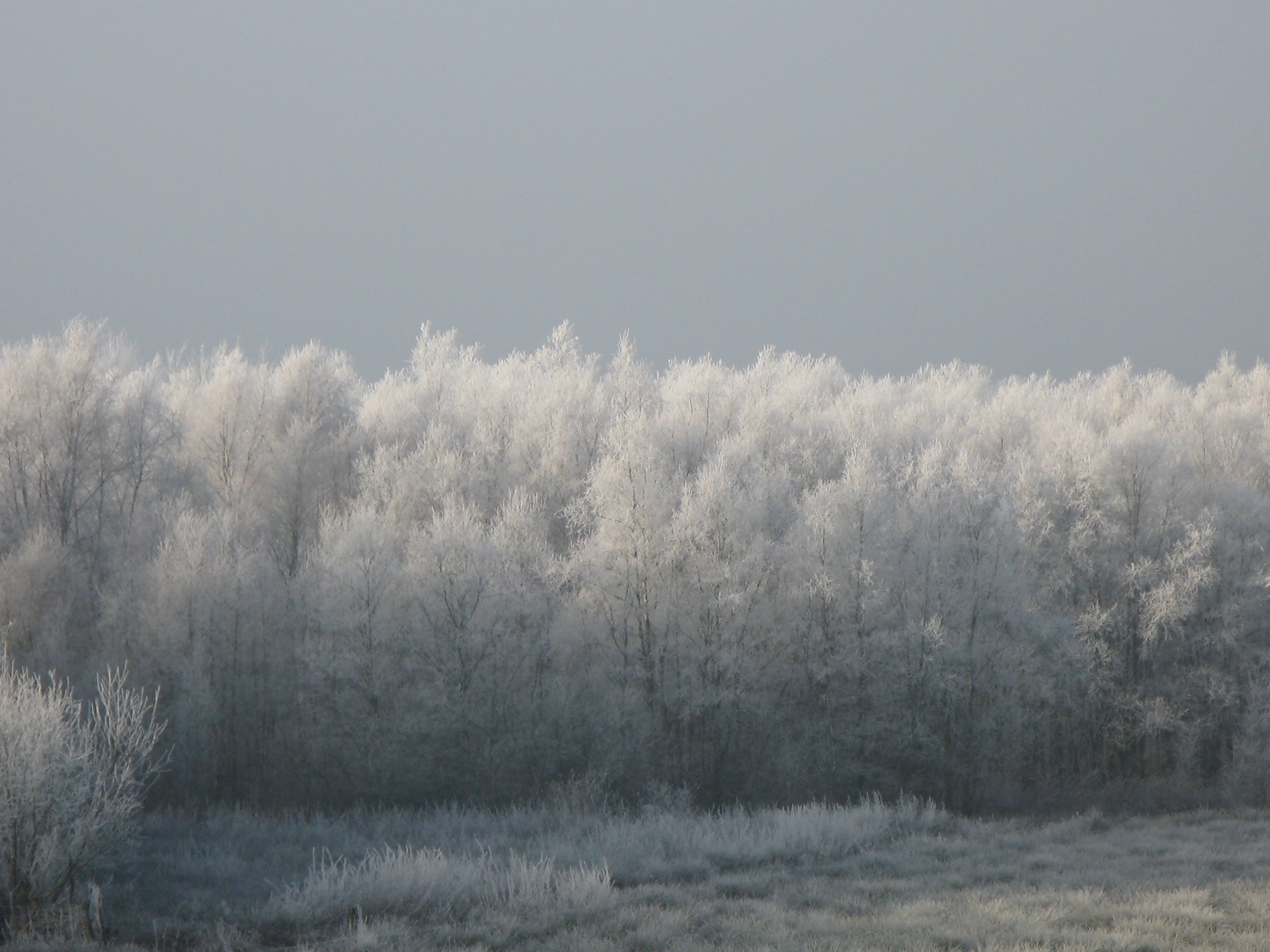 Bargsmoor, Gut Wittenborgh, Naturschutzgebiet "Bargsmoor / Rechtenflethermoor", Driftsethe, Niedersachsen, Germany